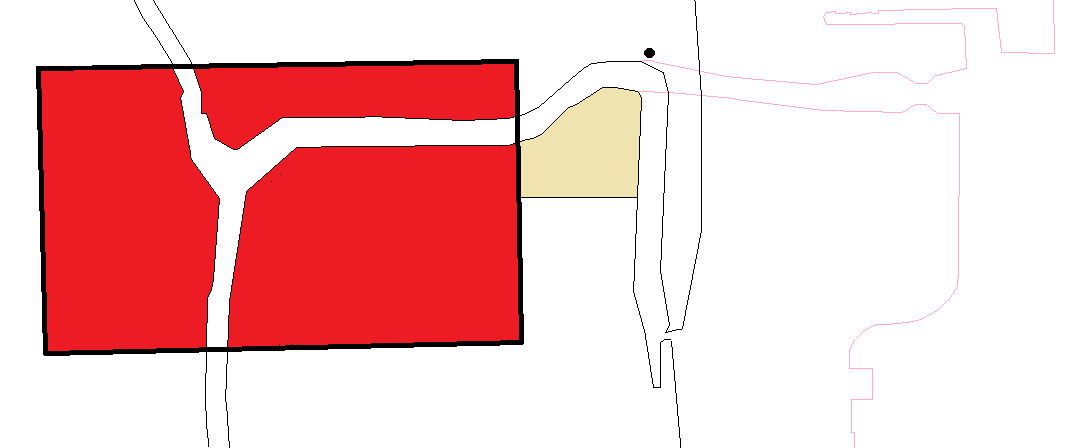 Chicago at the time of James Thompson's plat, August 1830. Red is Thompson's plat, buff is Fort Dearborn, the black dot is John Kinzie's house, and the pink line is the modern shoreline. File:Thompson Context.svg is a vector version of this file. It should be used in place of this raster image when not inferior. File:Thompson Context.png File:Thompson Context.svg For more information, see Help:SVG. In other languages